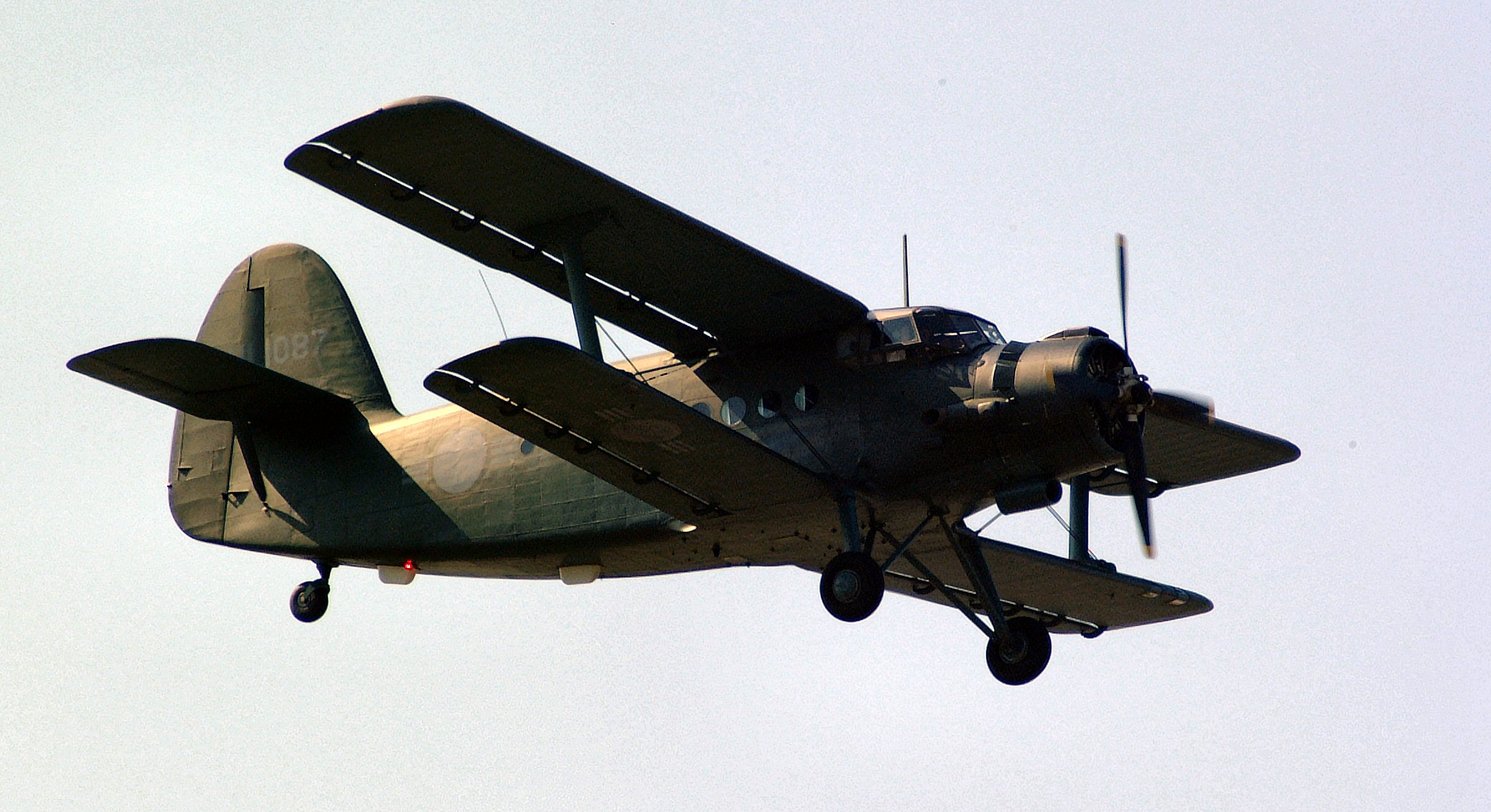 Korean AF Antonov 2 taken on approach to the Air Force Academy in October 2005. Presumably used to simulate the activities of the same type of aircraft, much used by their northern neighbours.